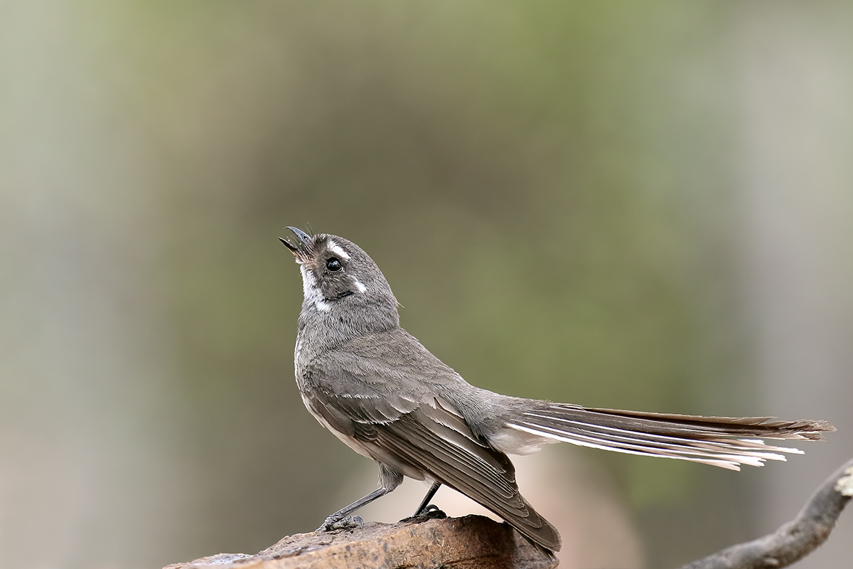 Strangways, Vic. Swallowing after a drink at the bird bath.